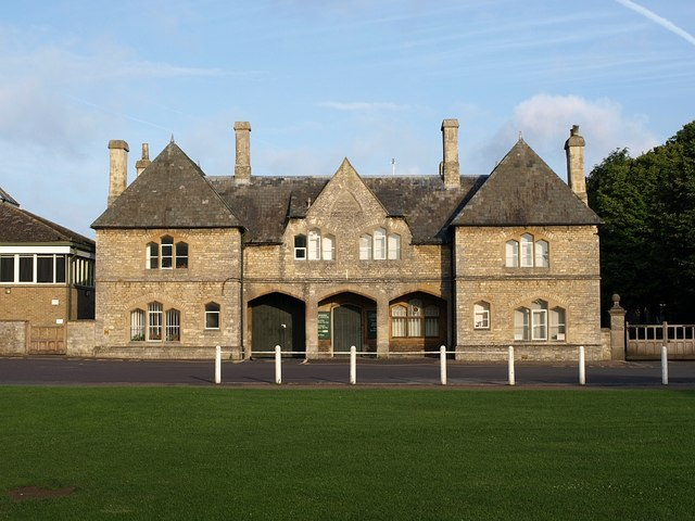 Former Police Station, Church Green, Witney, Oxfordshire, built in 1860. It is one of five Oxfordshire police stations designed by the architect William Wilkinson.